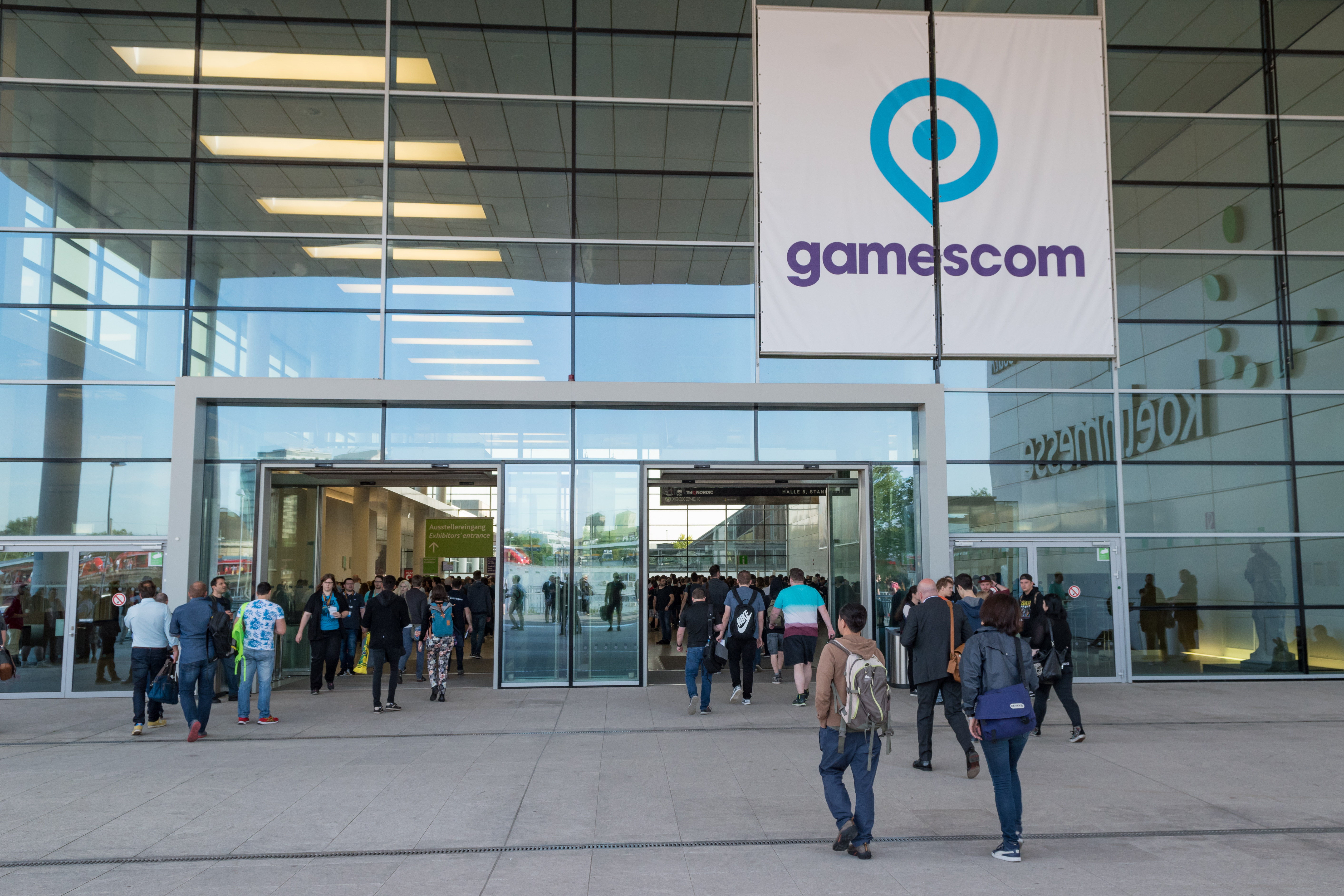 Gamescom opening 2017